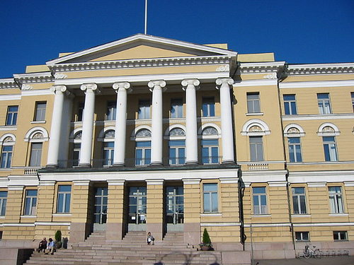 Front Facade of Main Building, University of Helsinki